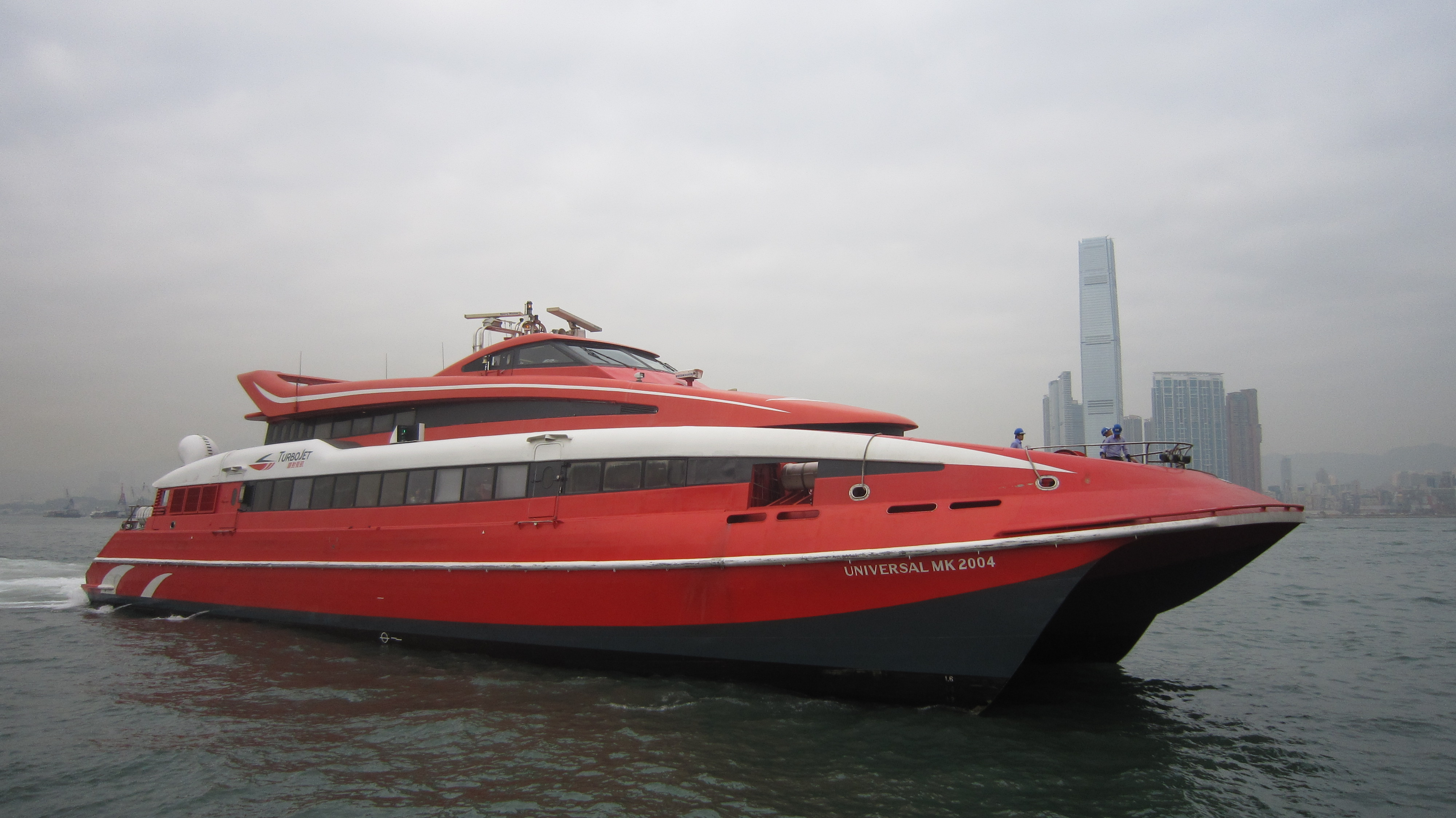 TurboJET Universal MK 2004 中文（香港）: Universal MK 2004, um ferry de 'TurboJET'